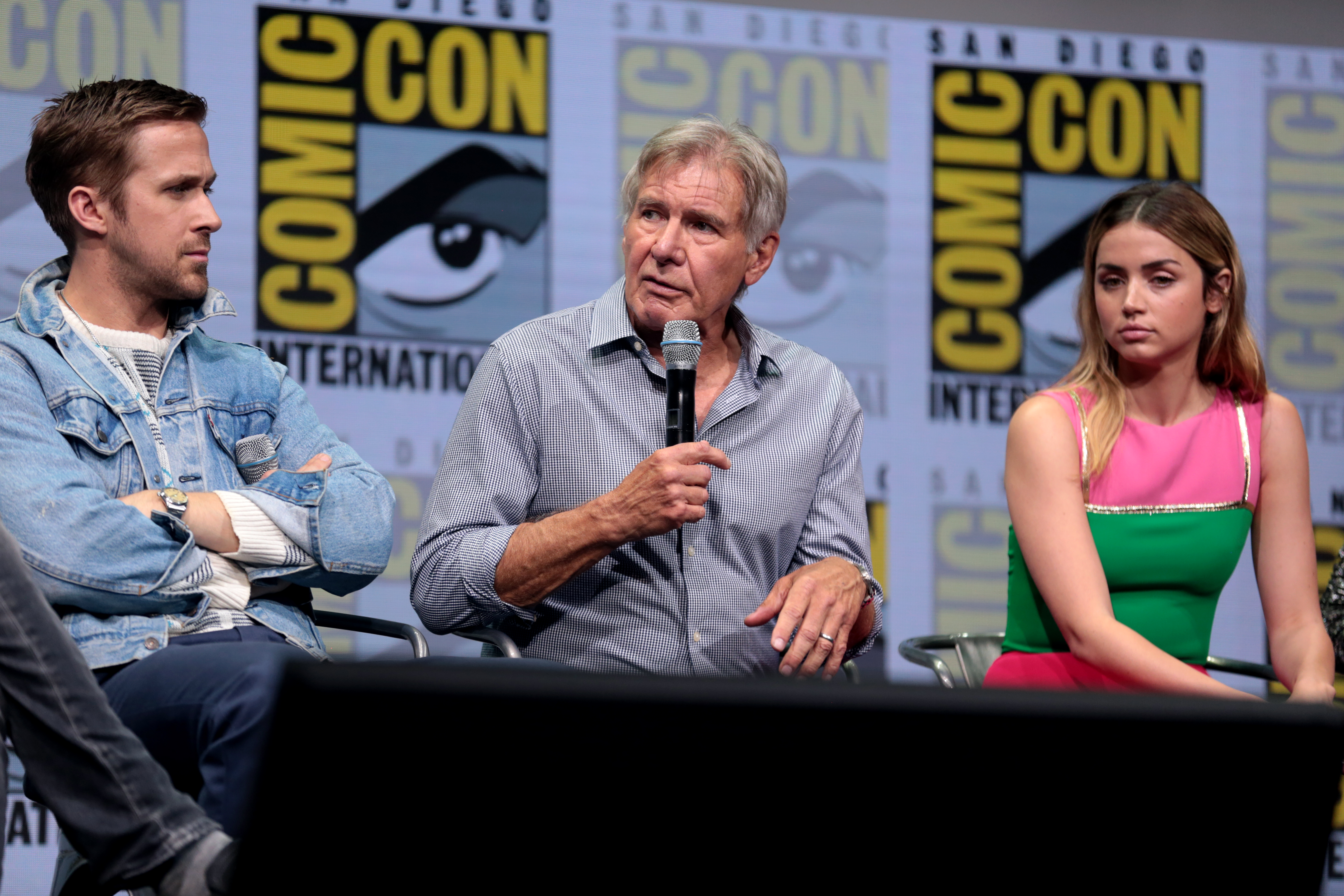 Ryan Gosling, Harrison Ford and Ana de Armas speaking at the 2017 San Diego Comic Con International, for "Blade Runner 2049", at the San Diego Convention Center in San Diego, California.